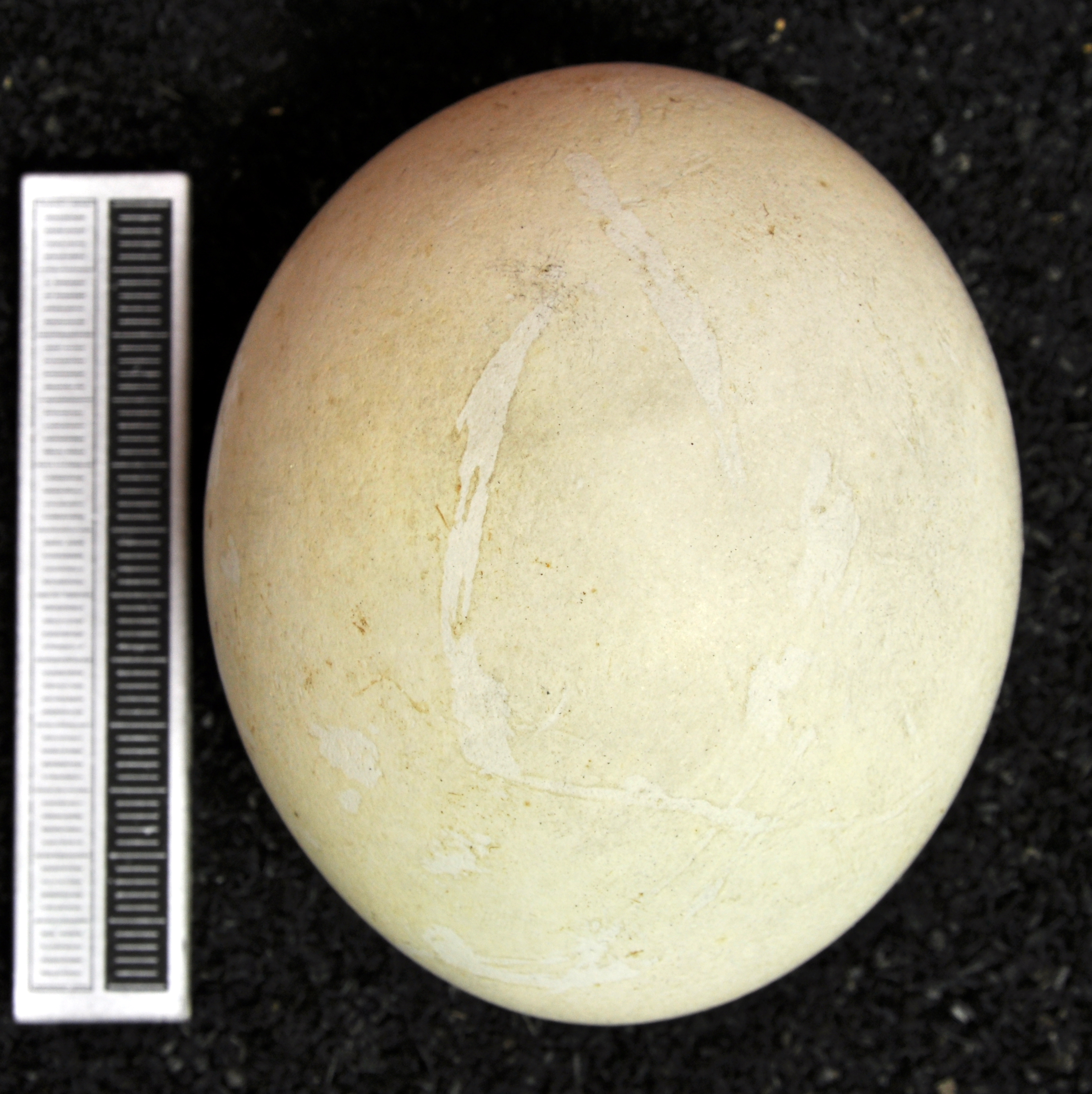 Gentoo penguin Pygoscelis papua , egg, Coll. Museum Wiesbaden